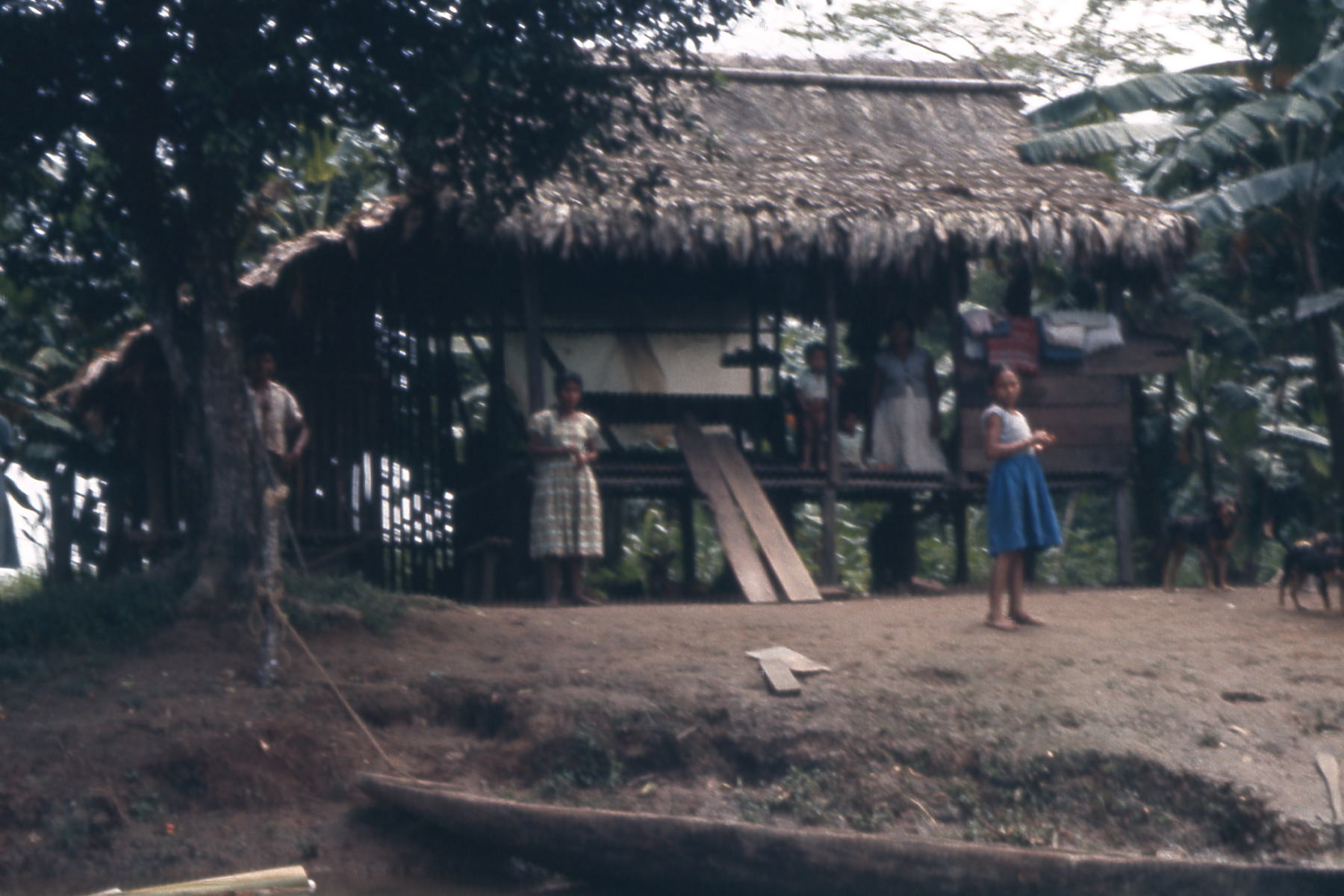 Mosquito Indian family abode along the Prinzapolka River